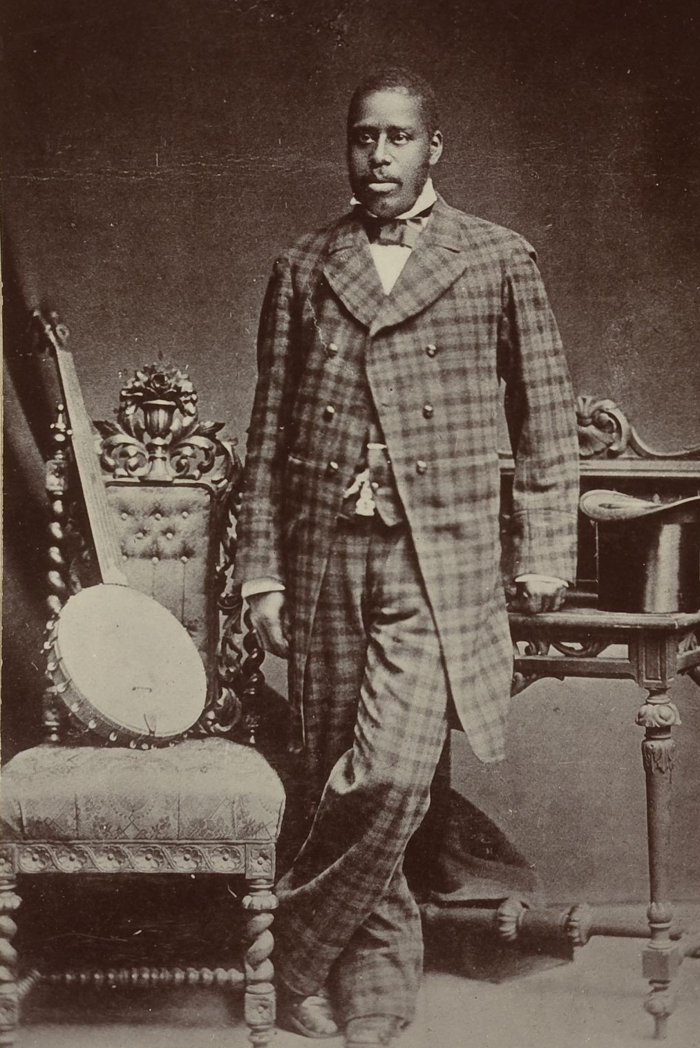 Cabinet card image of American banjo player and songwriter Horace Weston (1825-1890), posing with his instrument nearby. Cropped from the original to remove frame. TCS 1.1073, Harvard Theatre Collection, Harvard University